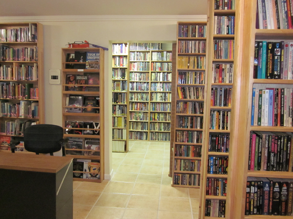 View of the LASFS library at the Tyrone clubhouse, showing some of the many shelves of books available to members.